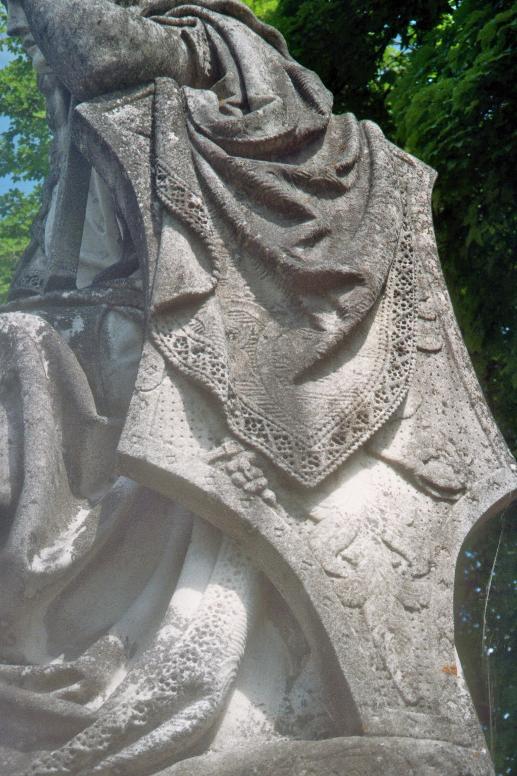 Sculpture of the Mourning Germania in memorial of the victims of the "Deutscher Krieg" in 1866. The sculpture is situated in the Bavarian spa resort of Bad Kissingen in Germany opposite to the "Kapellenfriedhof".